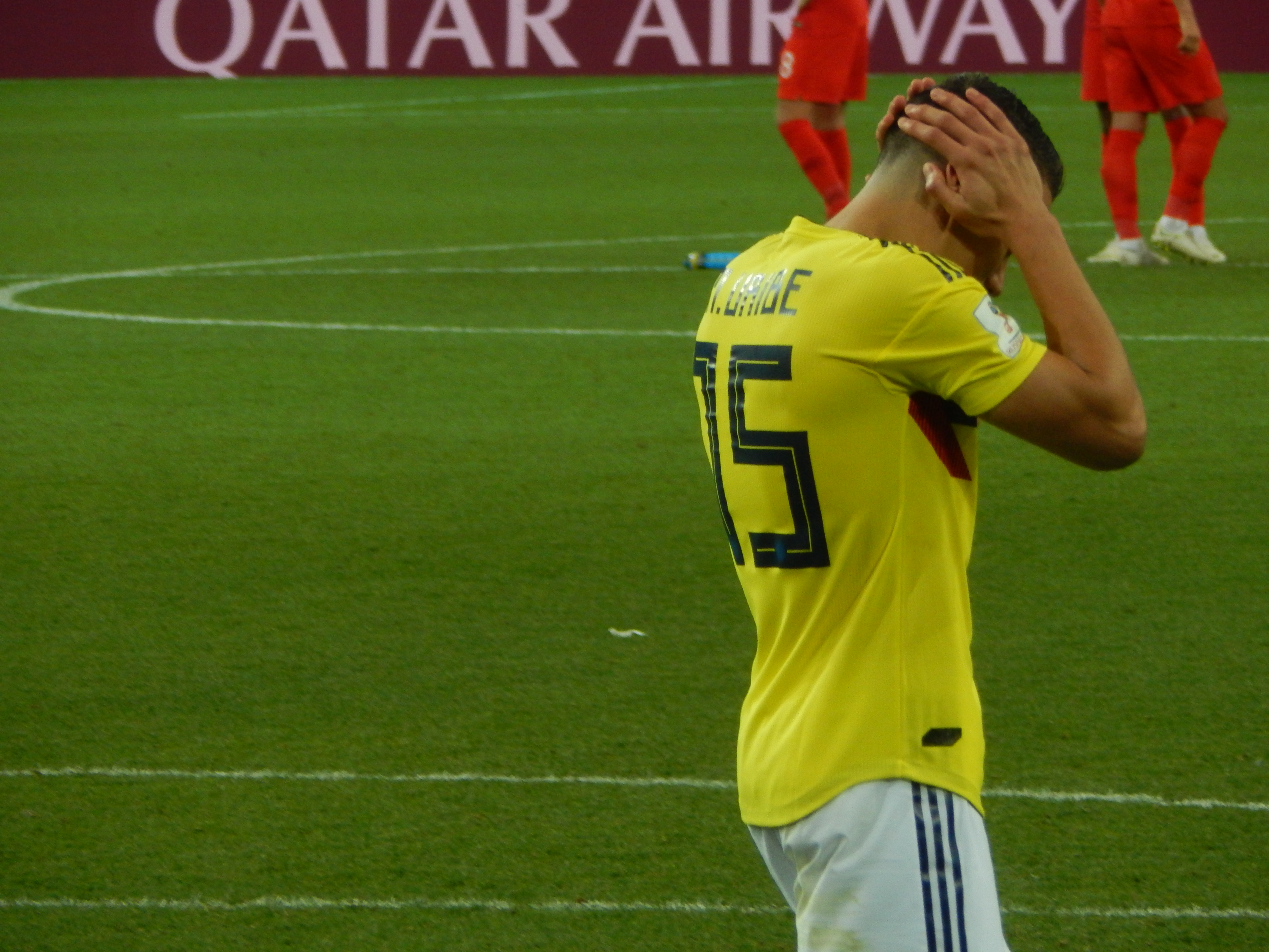 FIFA World Cup 2018, Round of 16, Colombia vs. England. Mateus Uribe after his missed kick during the shoot-out